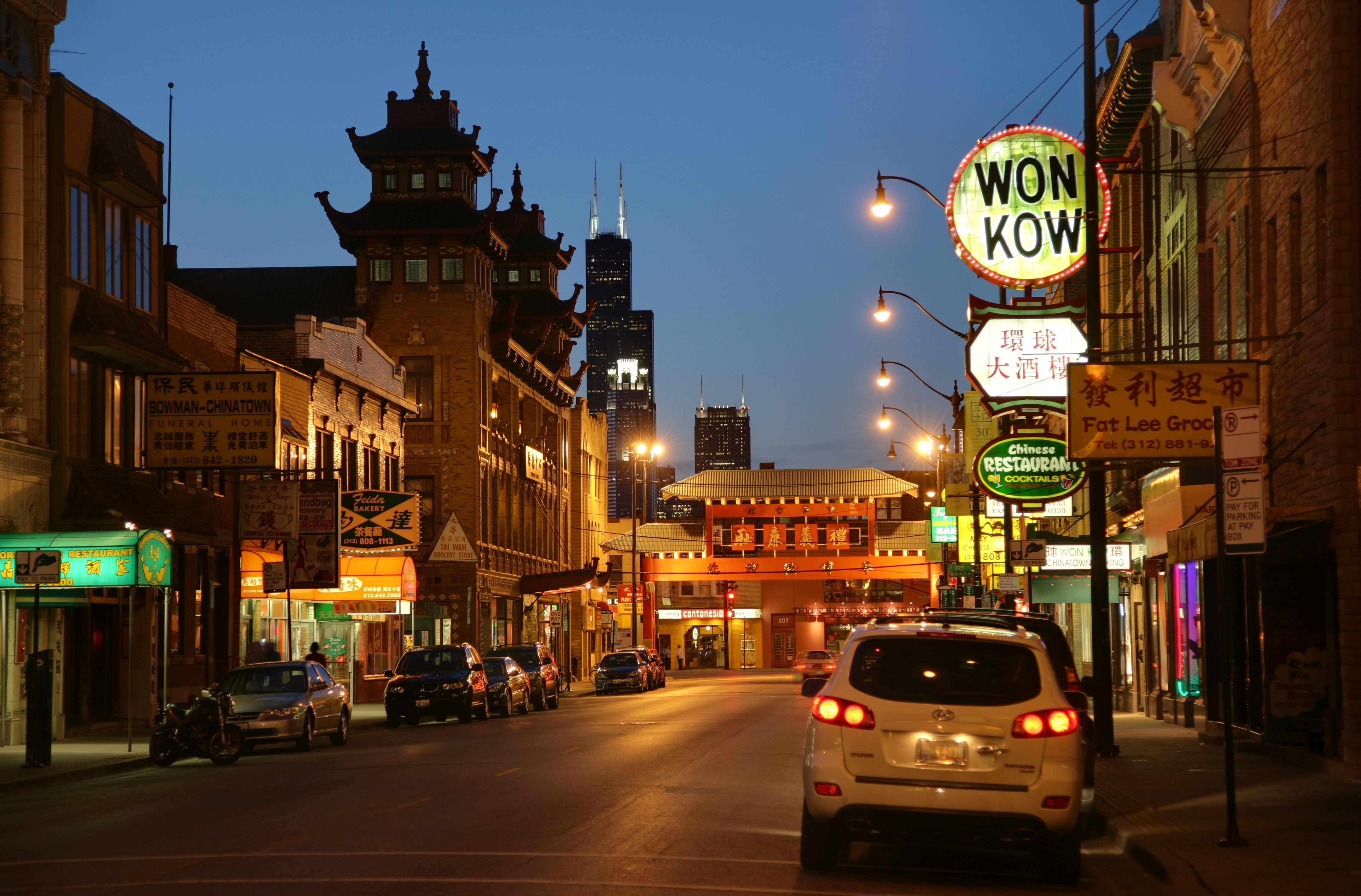 Chicago Chinatown by night